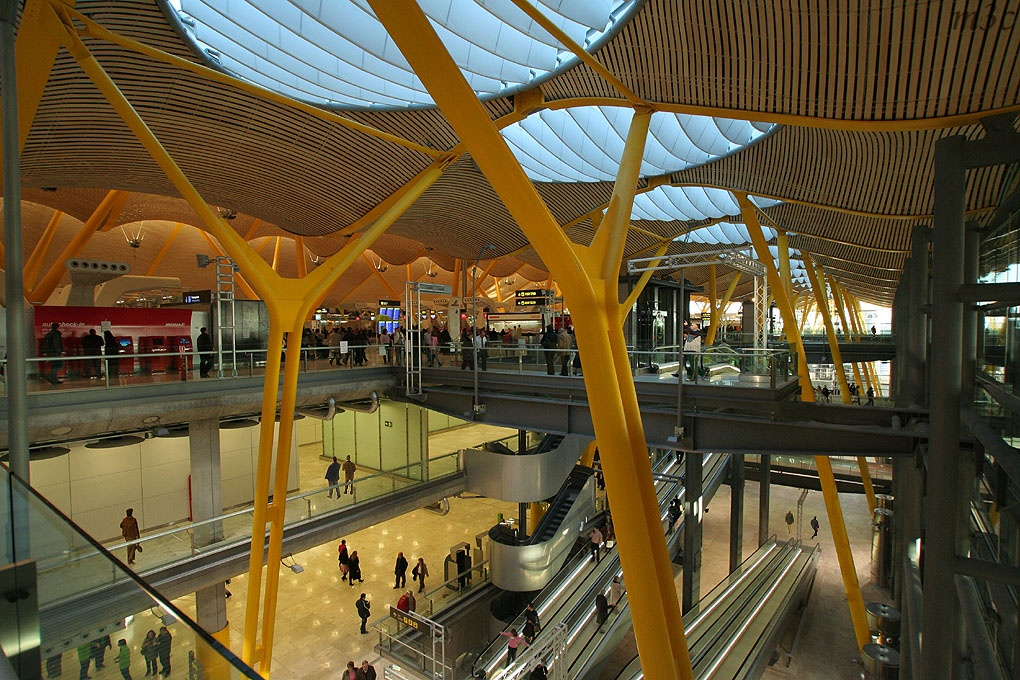 Crossection of Terminal 4 at Madrid Barajas Airport . Upper level for check-in . Lower levels for Arrivals and underground level to the Metro Station .